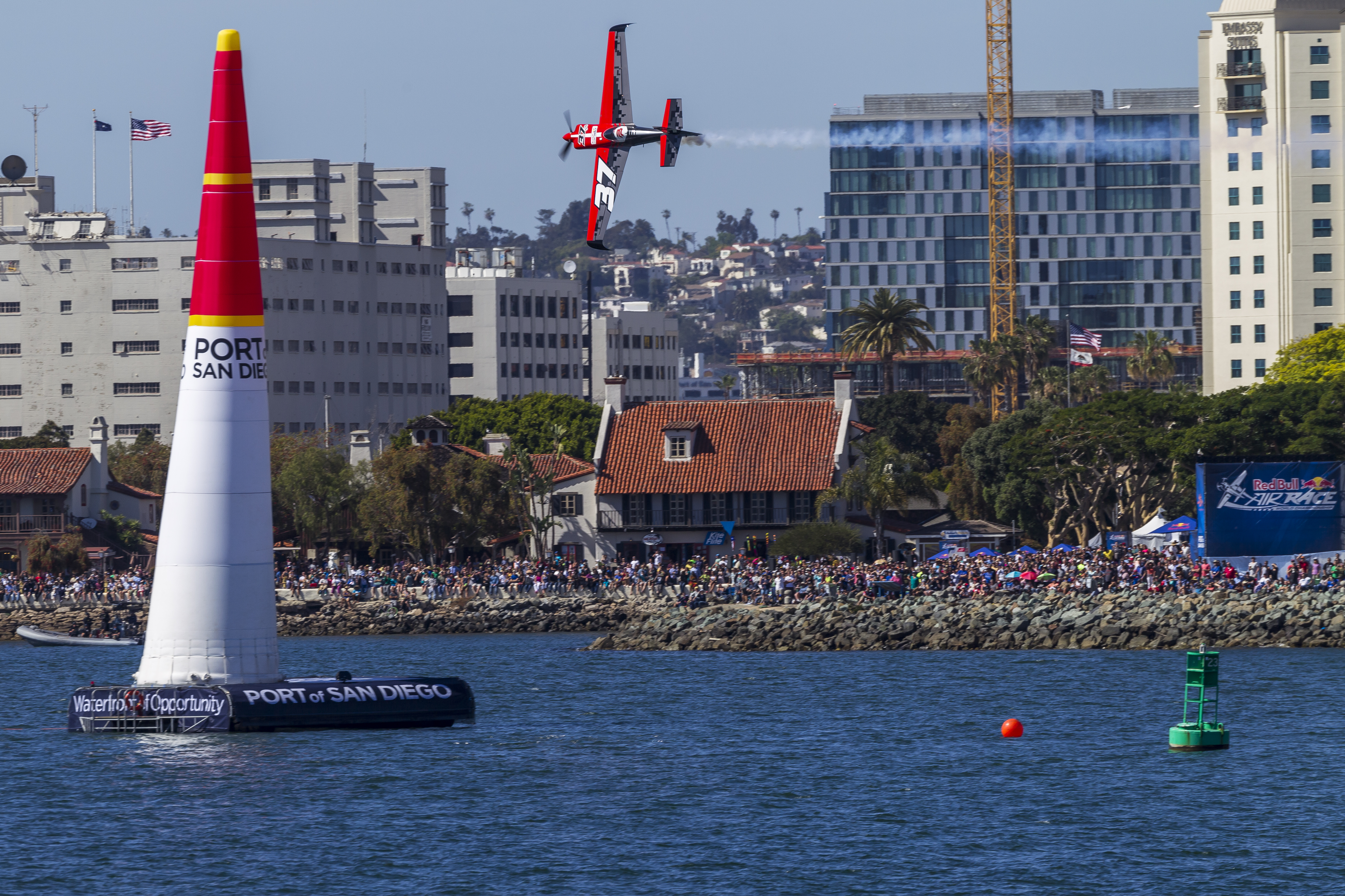 Peter Podlunsek of Slovenia performs during the finals at the second stage of the Red Bull Air Race World Championship in San Diego, United States on April 16, 2017. // Garth Milan/Red Bull Content Pool // P-20170417-00617 // Usage for editorial use only // Please go to for further information. //